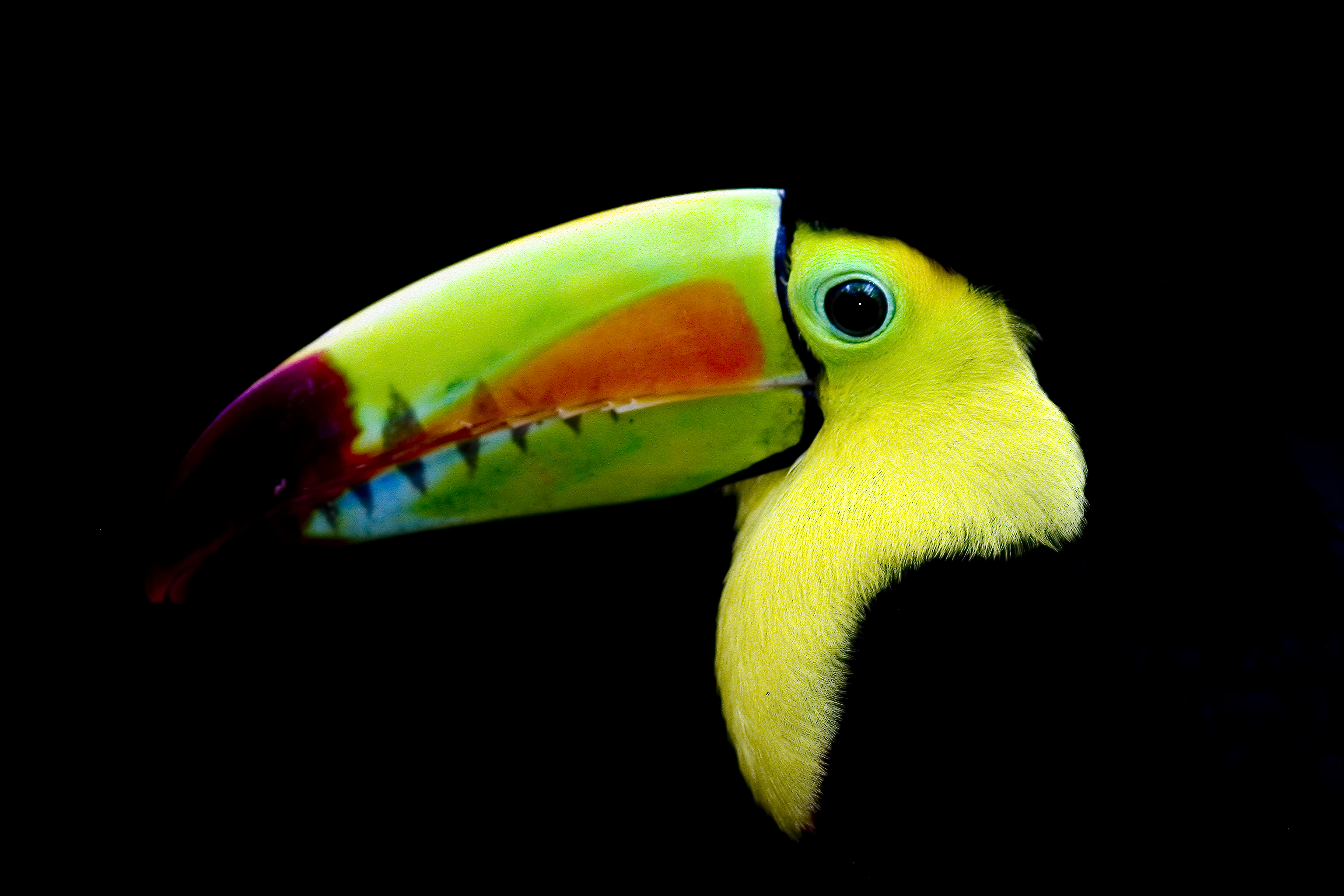 Keel-billed Toucan (also known as Sulfur-breasted Toucan, Rainbow-billed Toucan); close-up of upper body.